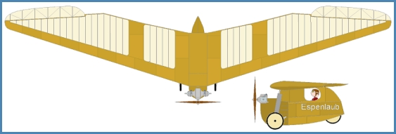 Espenlaub E-15